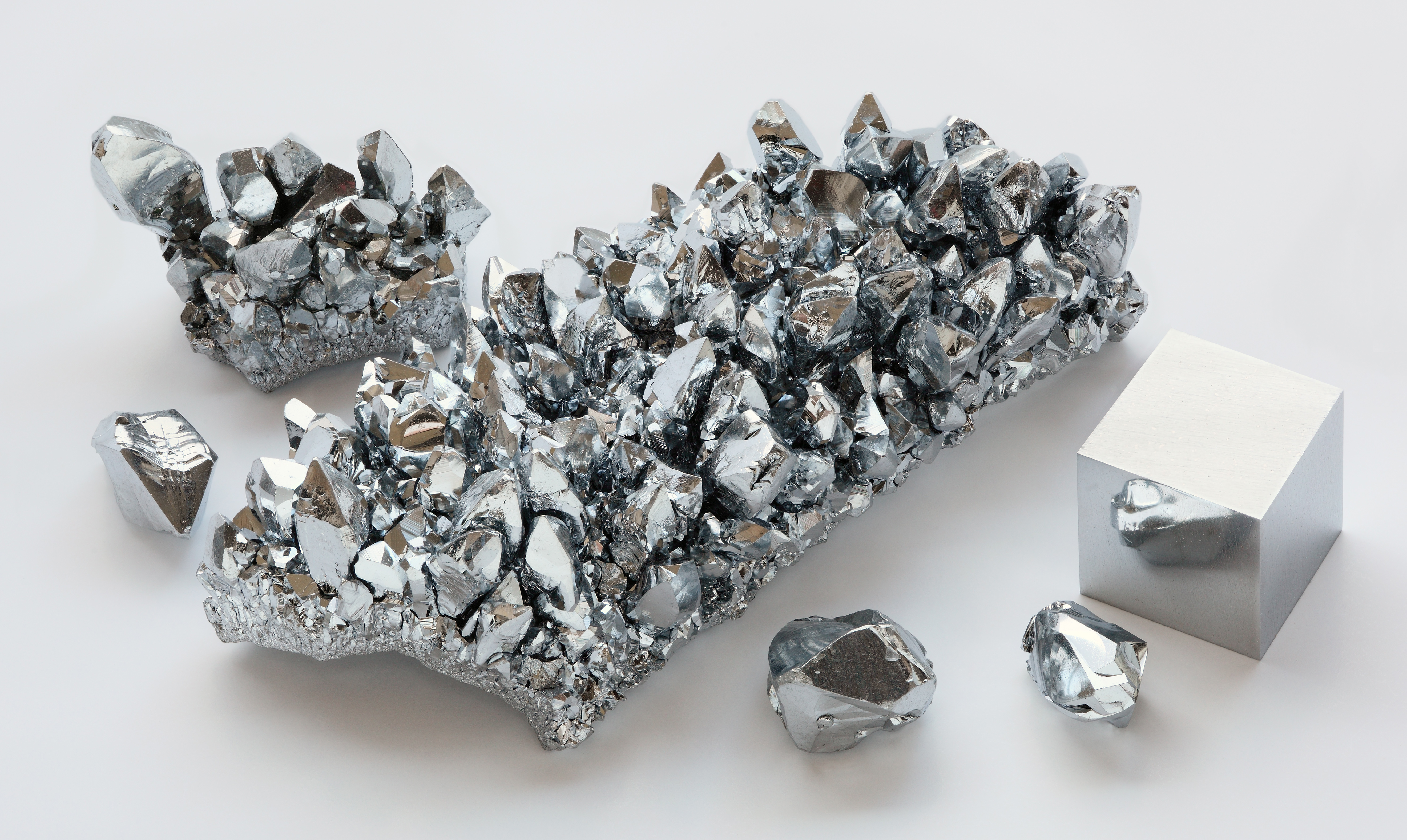 High purity (99.999 % = 5N) chromium crystals, produced by chemical transport reaction through decomposition of chromium iodides, as well as a high purity (99,95 % = 3N5) 1 cm3 chromium cube for comparison.